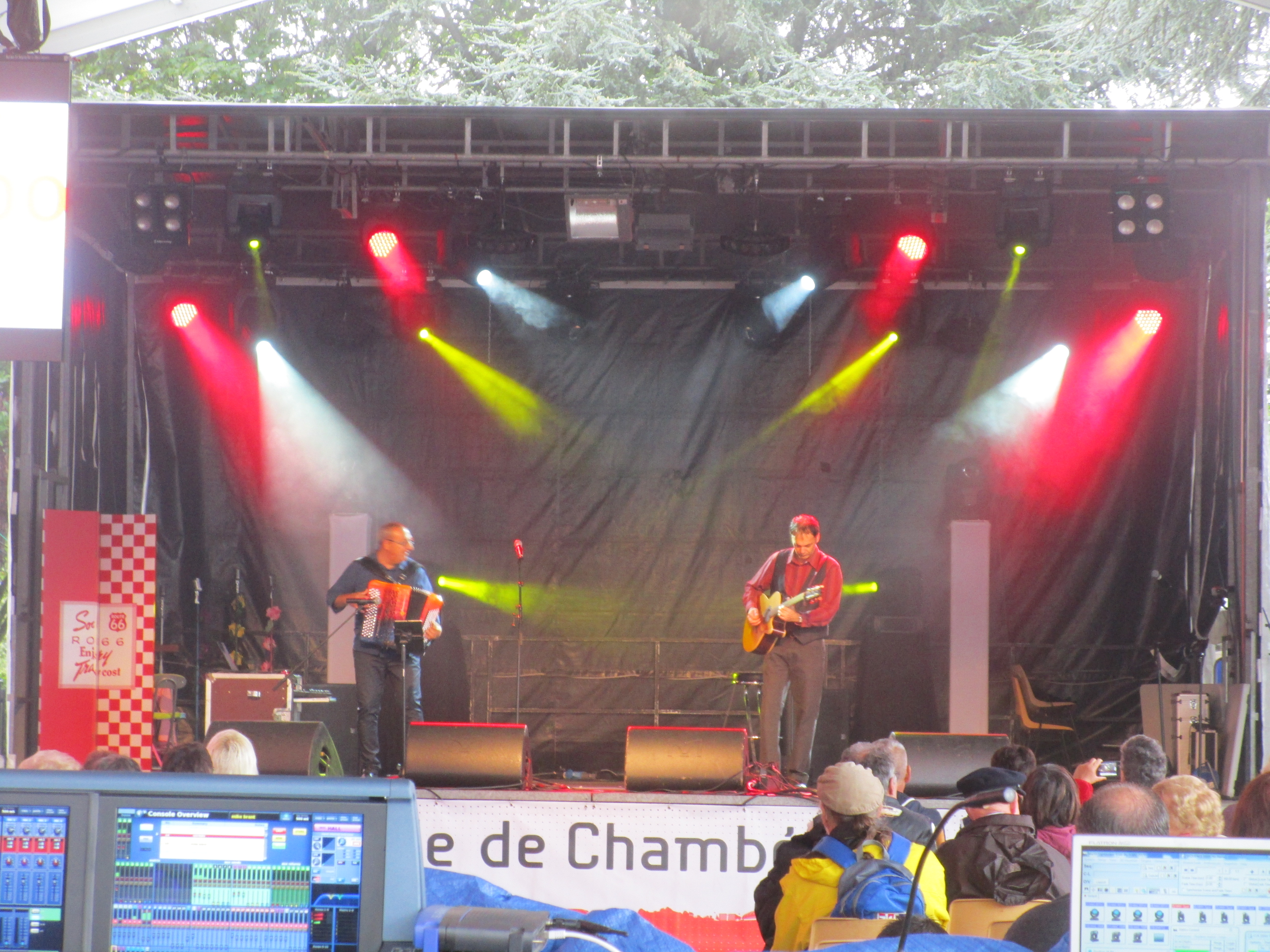 The centrale stage at the Foire de Savoie on September 17, 2015.